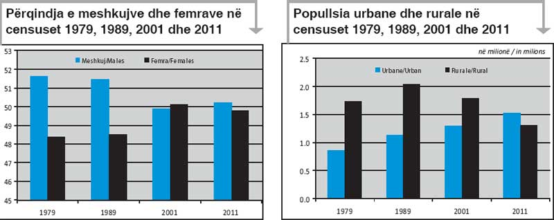 minmim